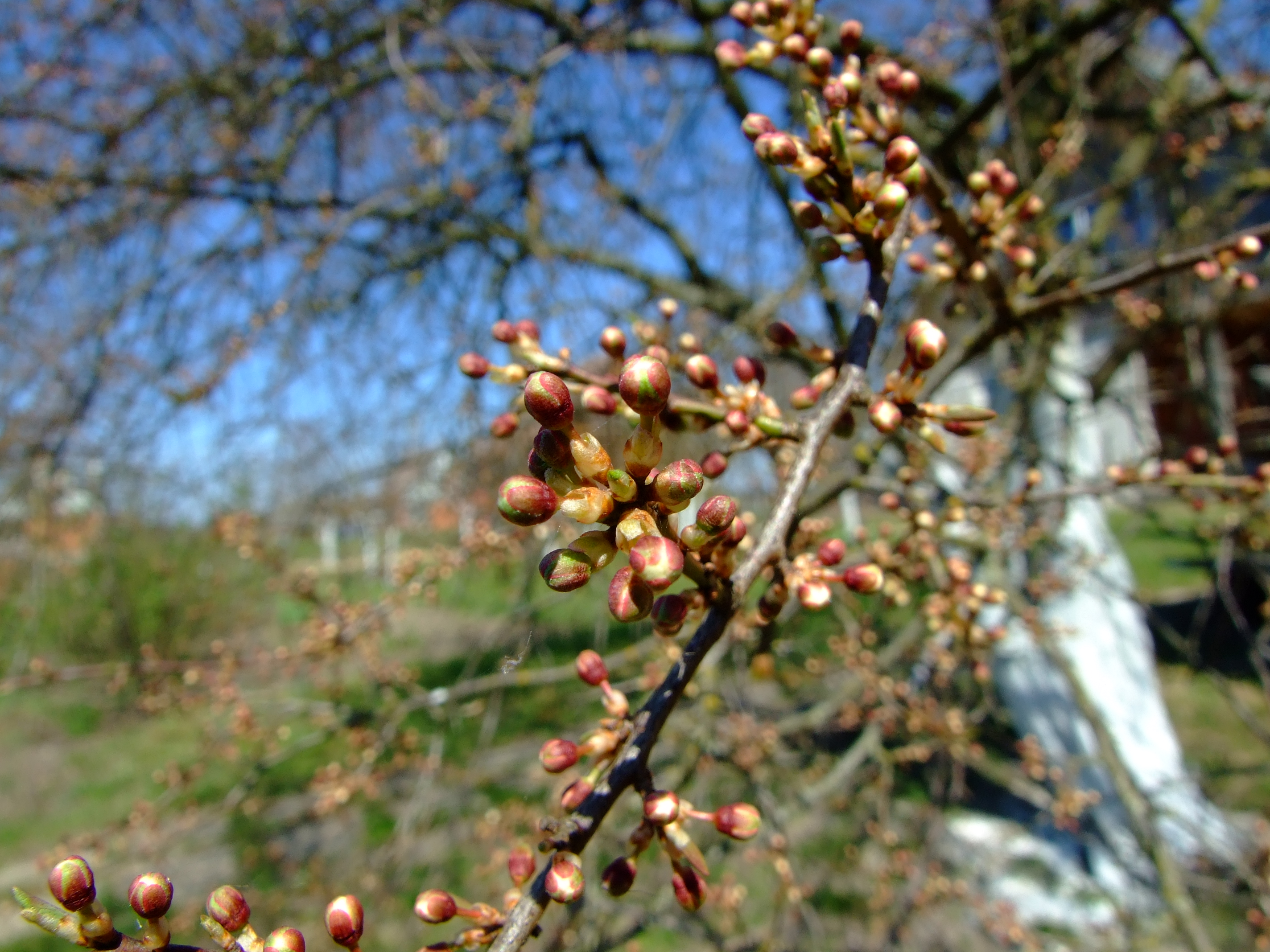 apple tree in spring